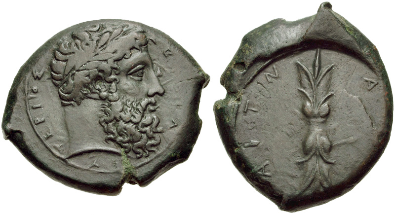 Sicily, Aetna. 344-339/8 BC Æ Hemidrachm? (23 mm, 11.65 g, 9h) ΙΕΥΣ ΕΛΕΥΘΕΡΙΟΣ Laureate head of Zeus Eleutherios (Zeus the Liberator) right ΑΙΤΝΑΙΩΝ Thunderbolt.